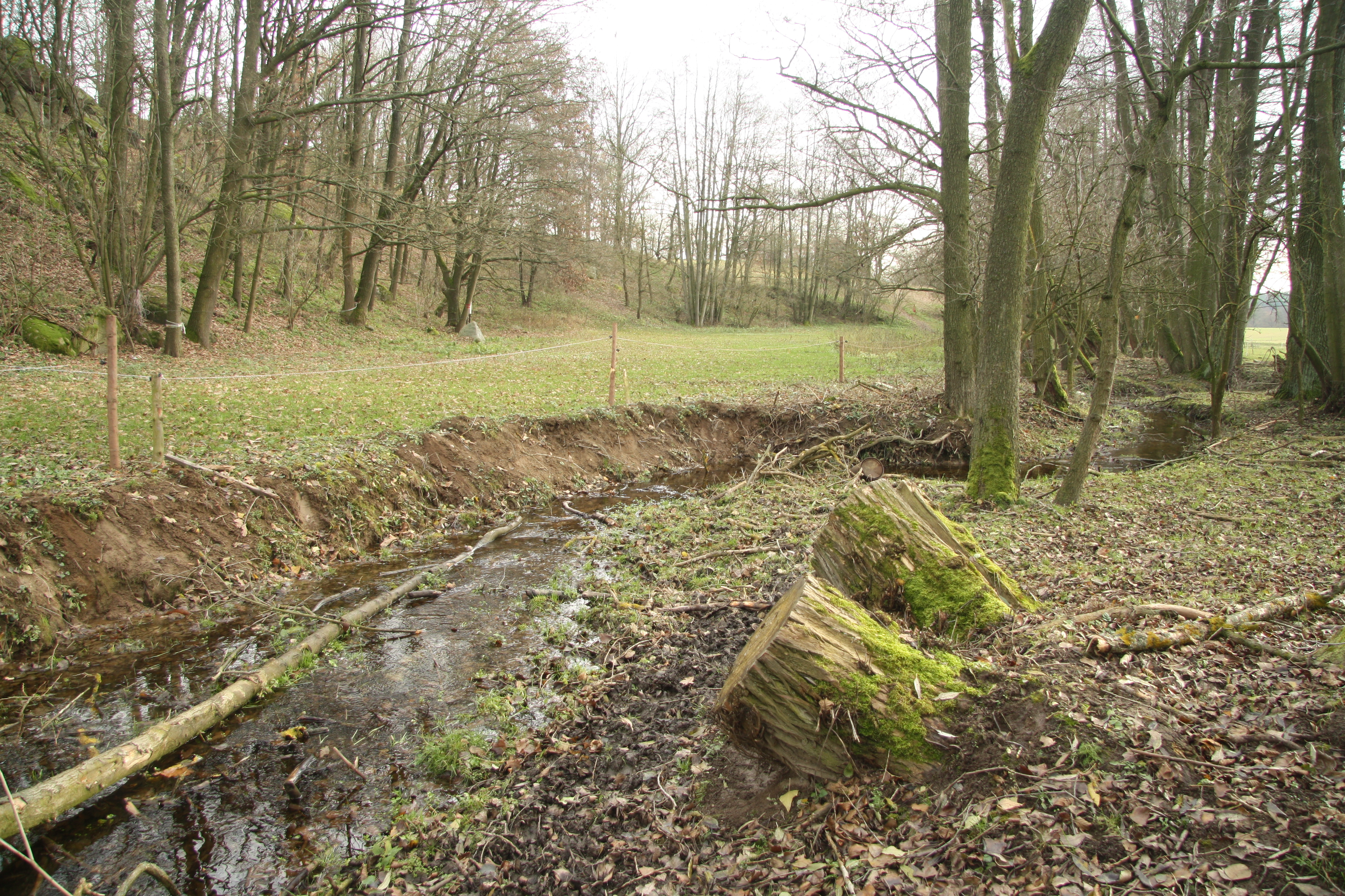 Lubí stream near Pocoucov, Třebíč, Třebíč District.